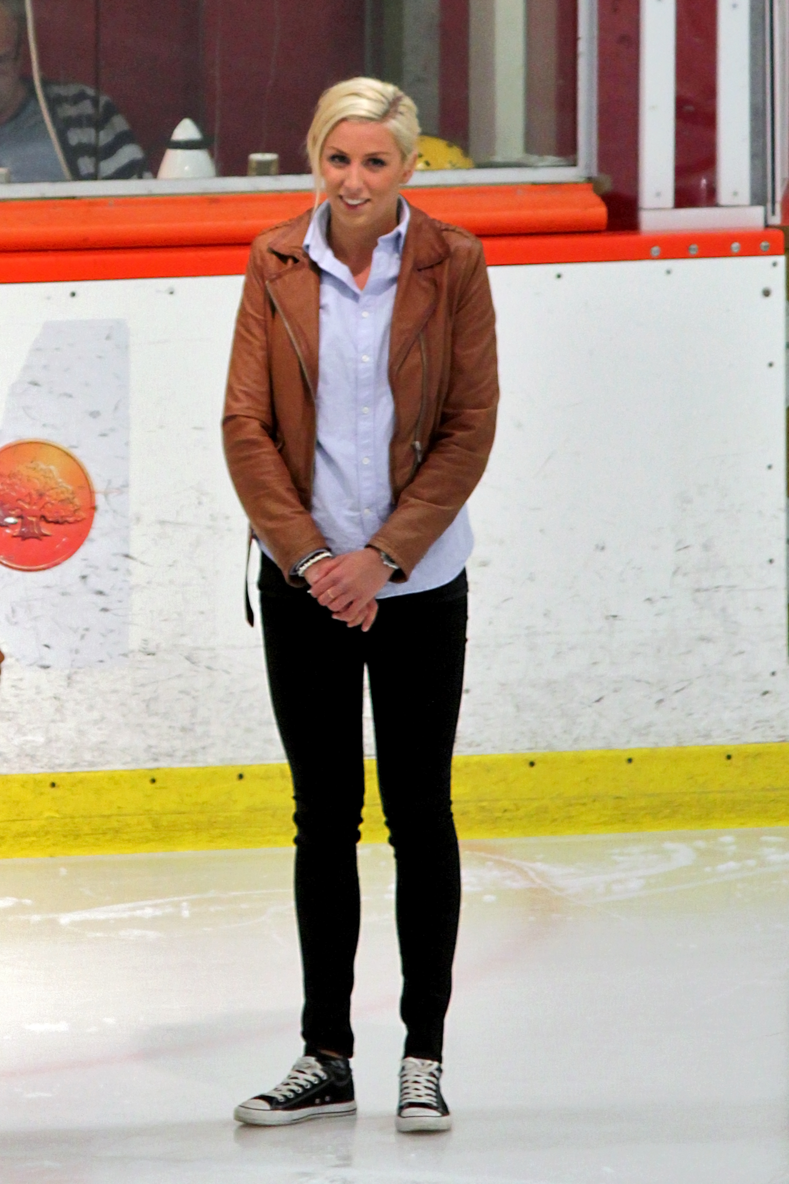 Swimmer Jennie Johansson at ice hockey arena Bolidenhallen, Hedemora, Sweden.